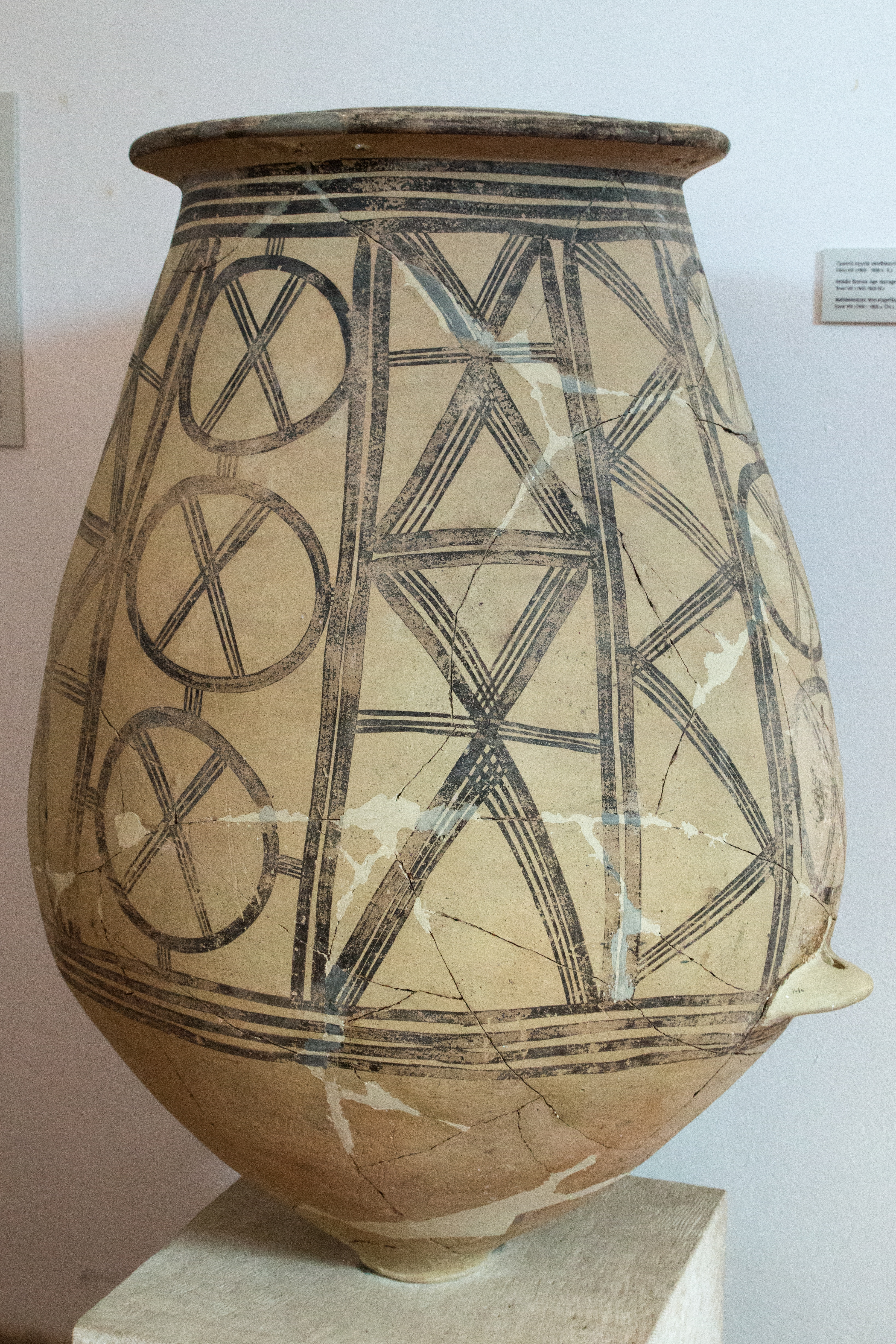 Middle Helladic painted storage jar. Aegina, Town VIII, 1900-1800 BC. Archaeological Museum of Aegina.